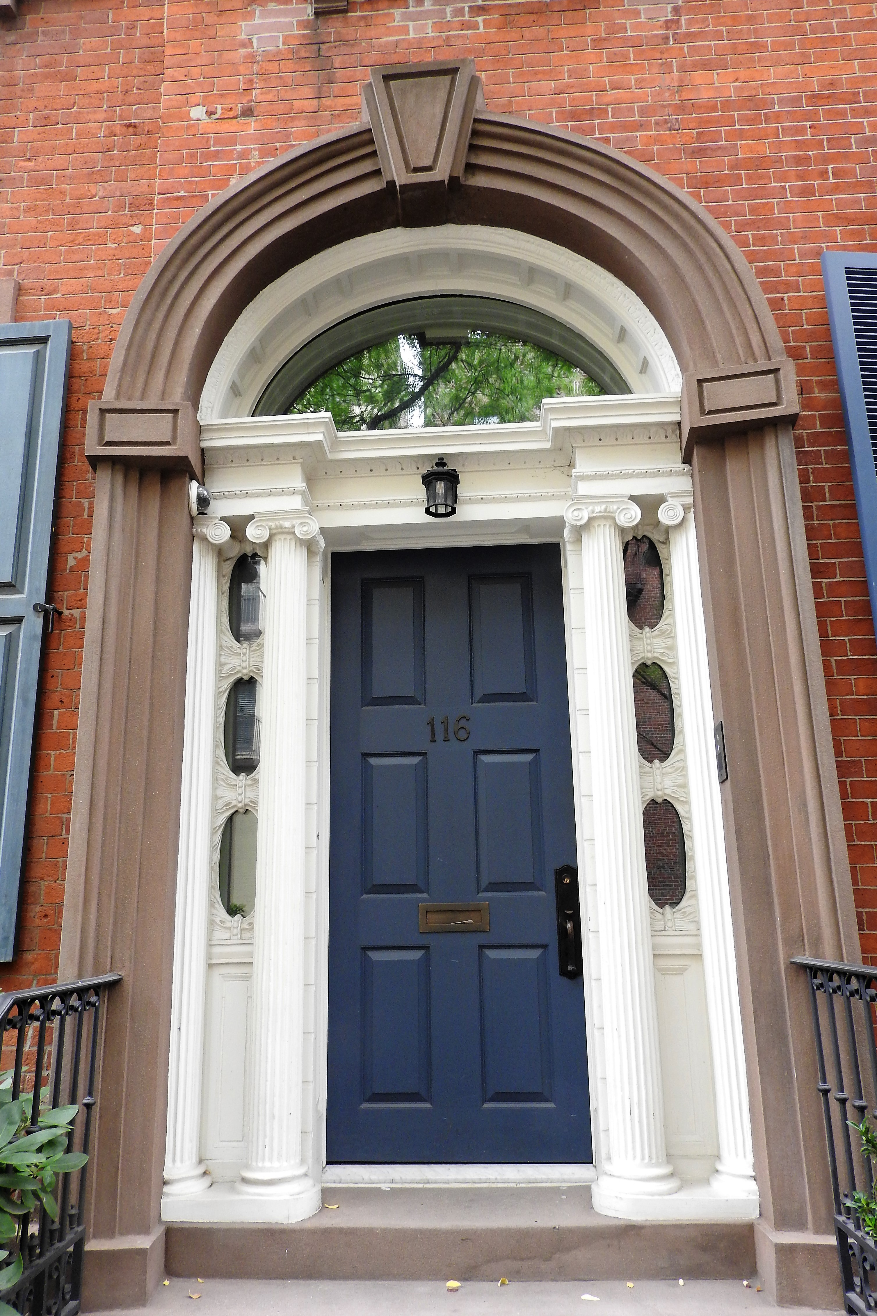 Looking west at door